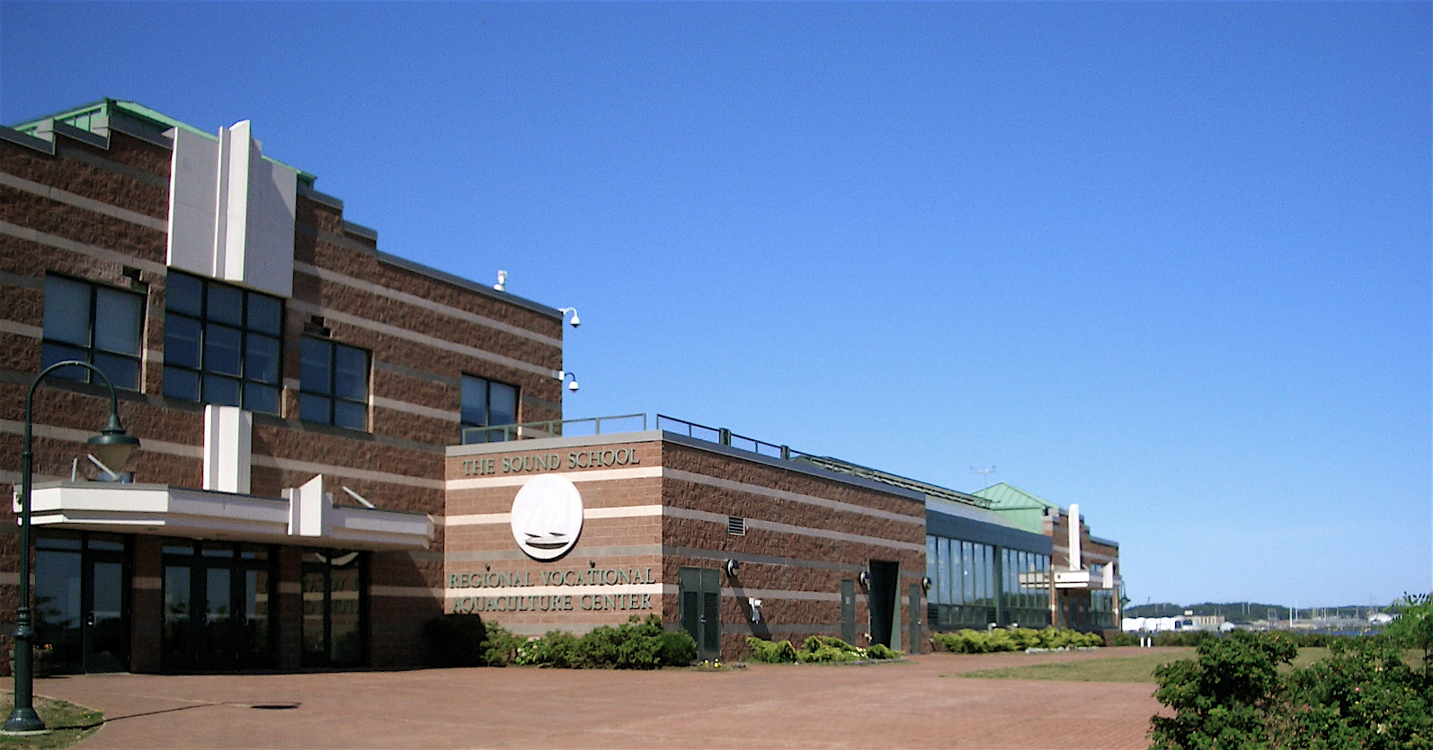 Front of The Sound School in New Haven, CT